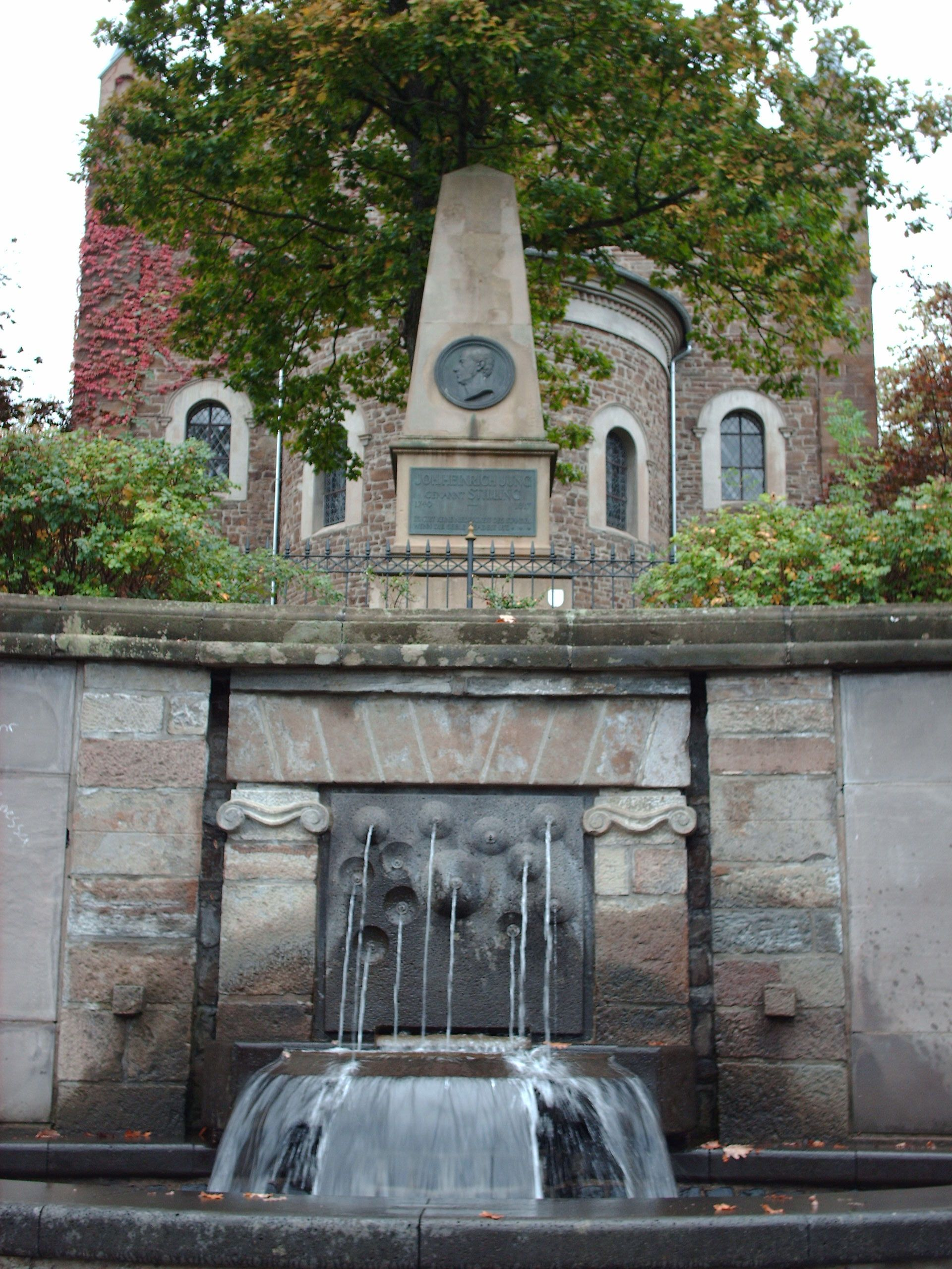 Jung-Stilling monument with fountain, Hilchenbach, Germany check usage